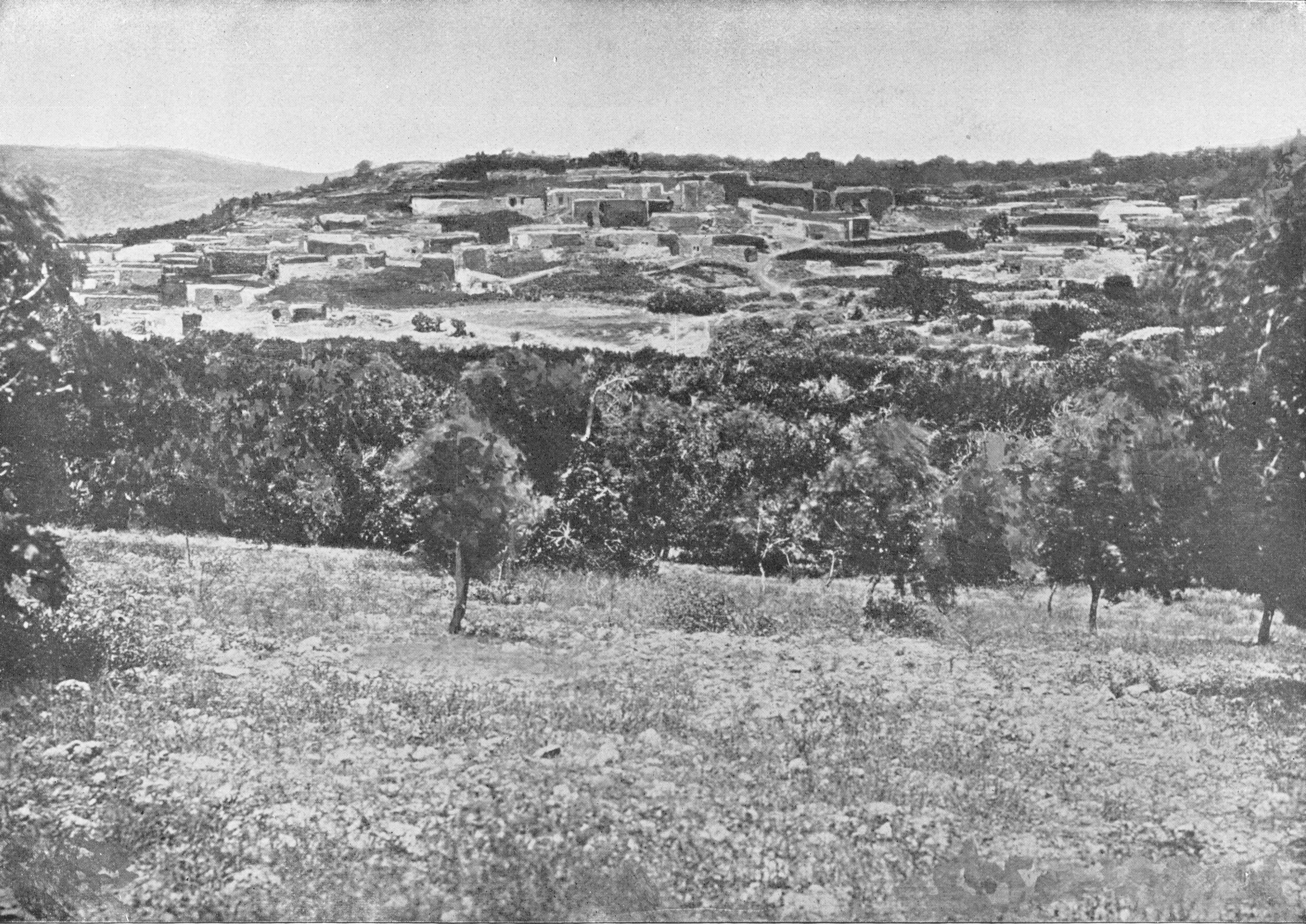 Cana of Galilee. From Holy land photographed, Daniel B. Shepp, 1894, p.90